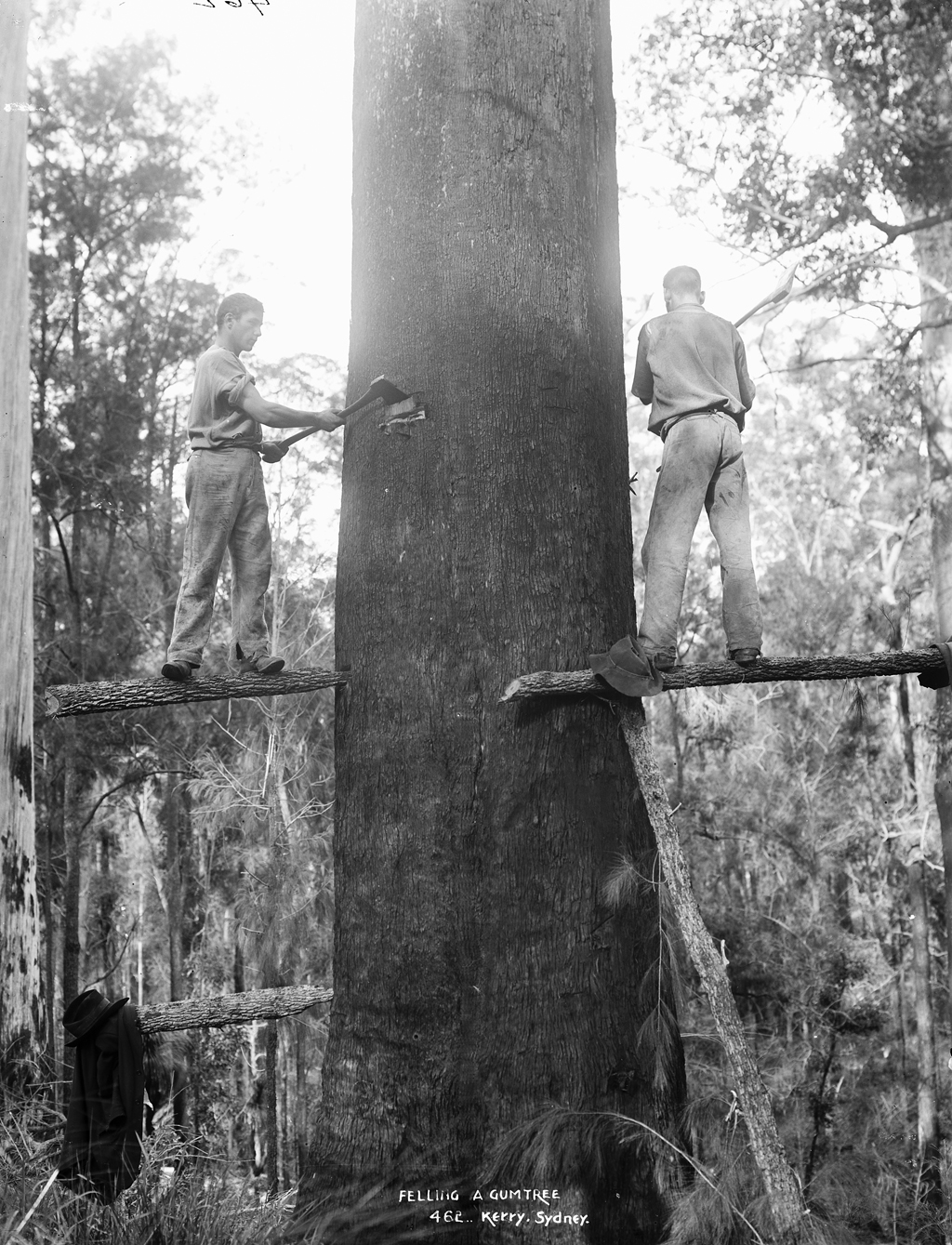 Silver gelatin dry plate glass negative in portrait format. The image depicts two men felling a gum tree (eucalyptus tree). The tree is depicted in the foreground in the centre of the image. Two men are depicted, one on the left and one on the right side of the tree. The man on the left side of the tree is standing on a cantilevered wooden pole wedged in a pocket cut into the side of the tree, known as a springboard. He is facing the camera but his head is turned towards the tree and he is holding an axe which is embedded in the tree. A second similar wedge can be seen below the man, a jacket and a hat are hanging on the end of the wedge. The second man, on the right side, is standing on a piece of wood which is propped against the tree by another piece of wood. He has his back to the camera and is swinging an axe over his right shoulder. A hat can be seen near his left foot. The background of the image depicts a bushland / forest environment.